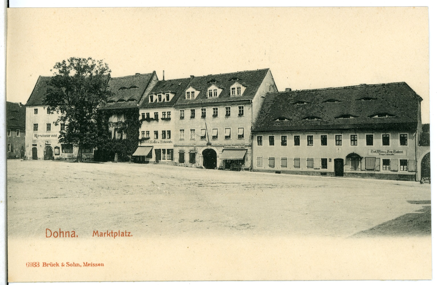 This postcard is from publisher Brück & Sohn in Meißen ( This postcard has a unique number 06933 and is available in a higher resolution at the publisher. This images was uploaded in a cooperation project between Wikipedians and the publisher.